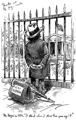 Mr. Bryan in 1899-I Stand Just Where I Stood Three Years Ago." Caricature of unsuccessful U.S. Presidential candidate William Jennings Bryan standing outside the White House gates looking in.